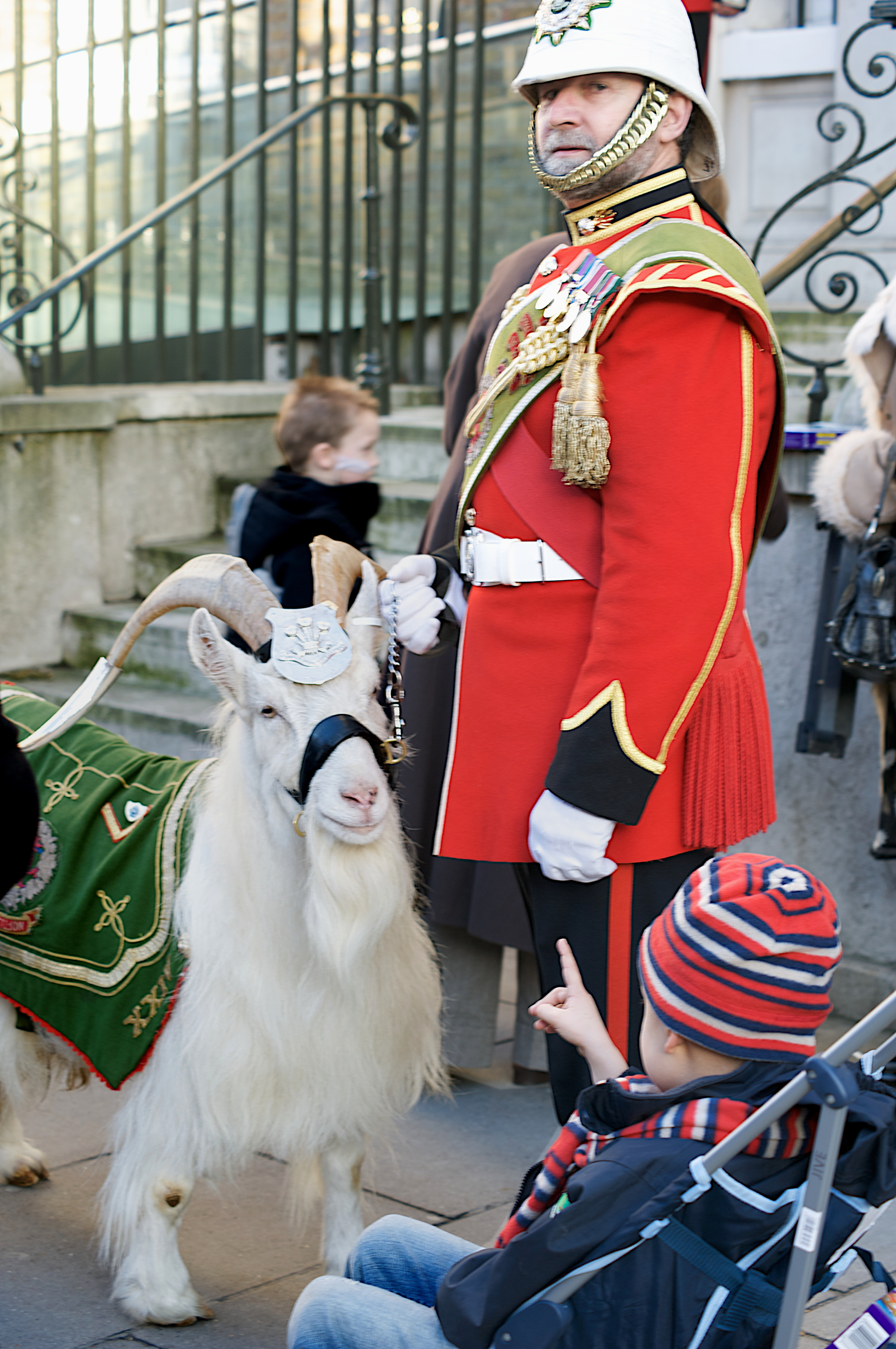 Goat with the Welsh guards